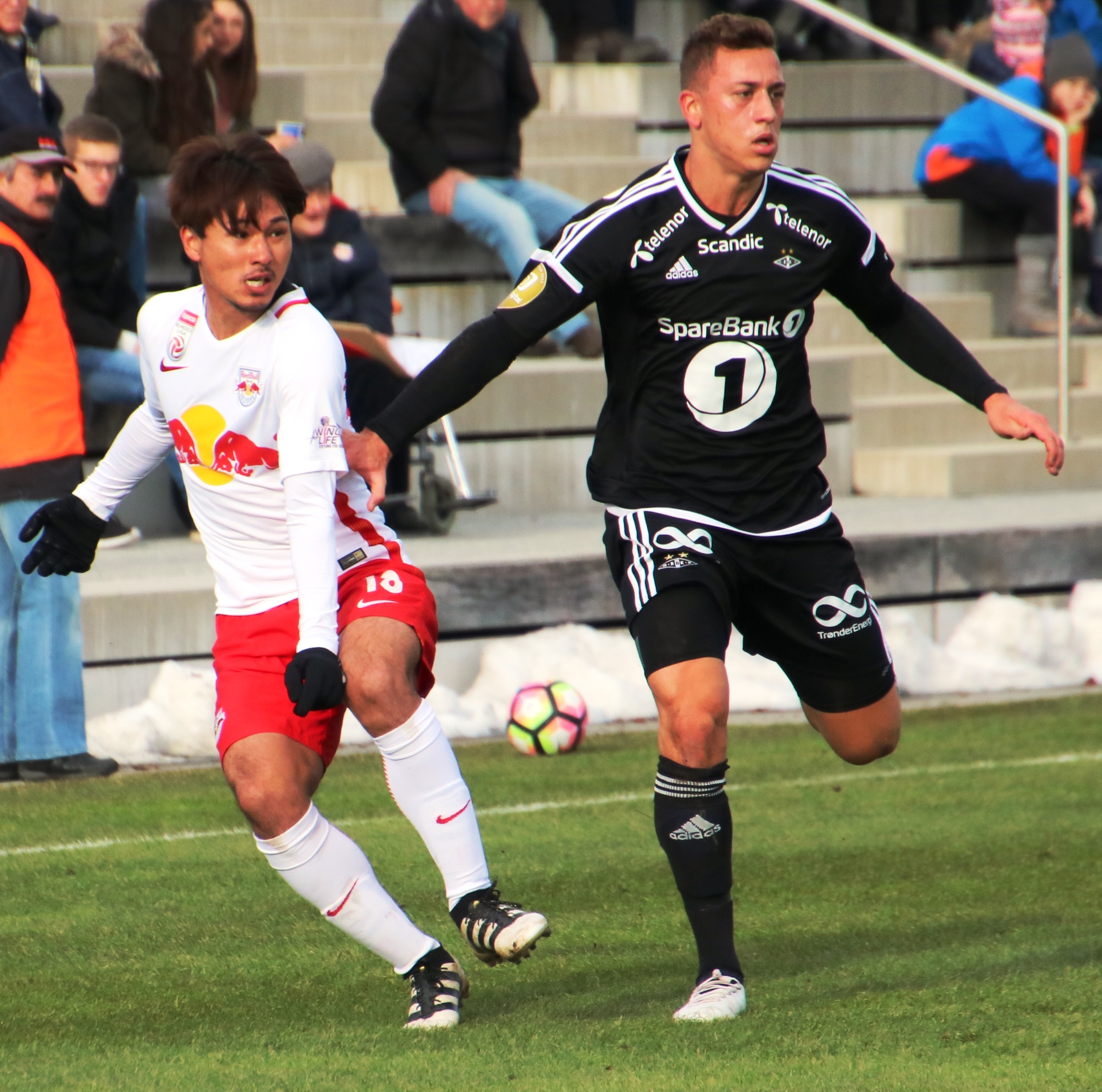 preseason match